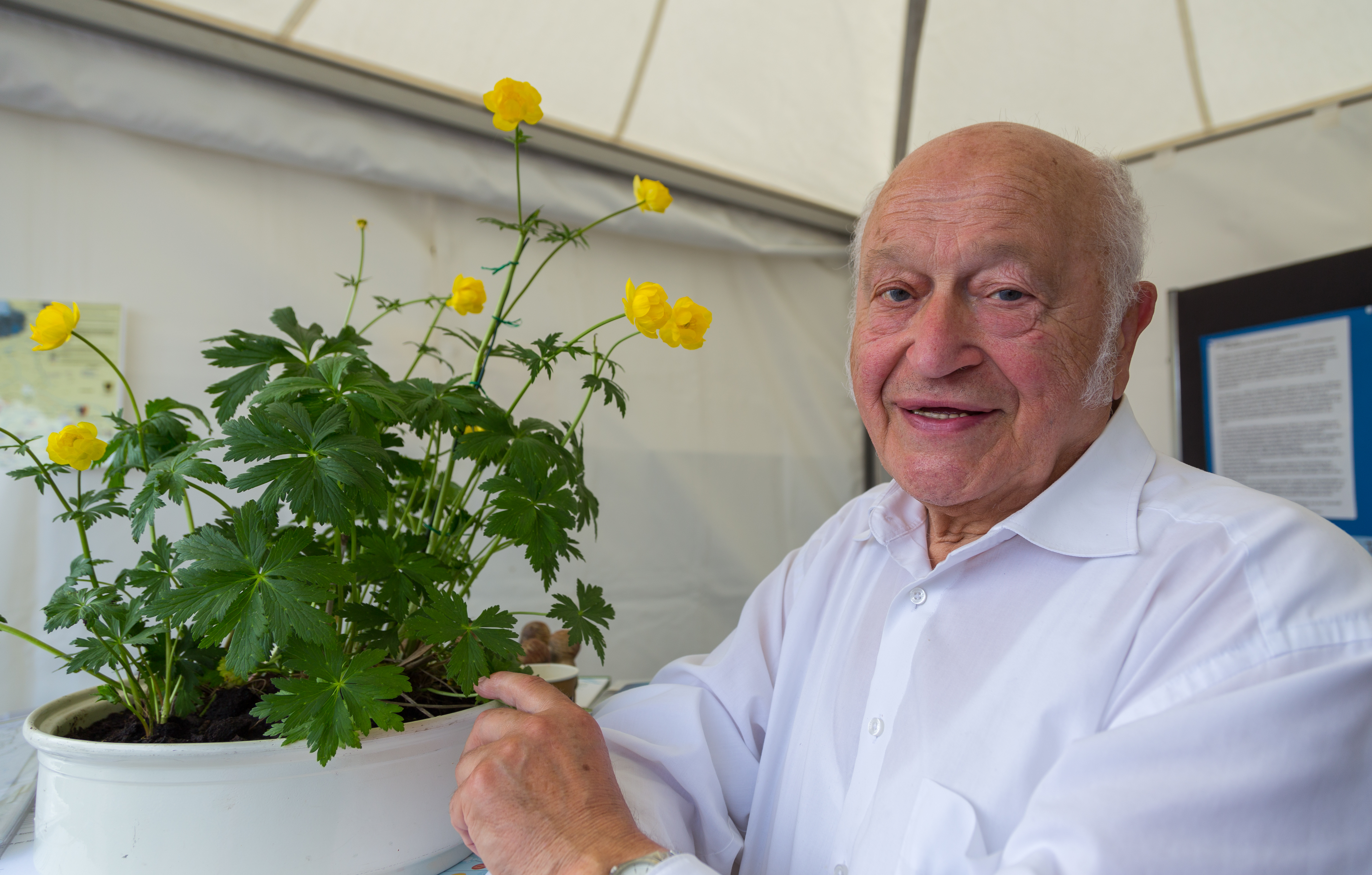 Großdechant Prelate Franz Jung at the 101st German Catholic Convention (101. Deutscher Katholikentag) in Münster, North Rhine-Westphalia, Germany.